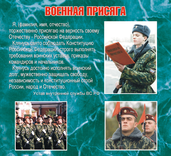 Плакат. Военная присяга